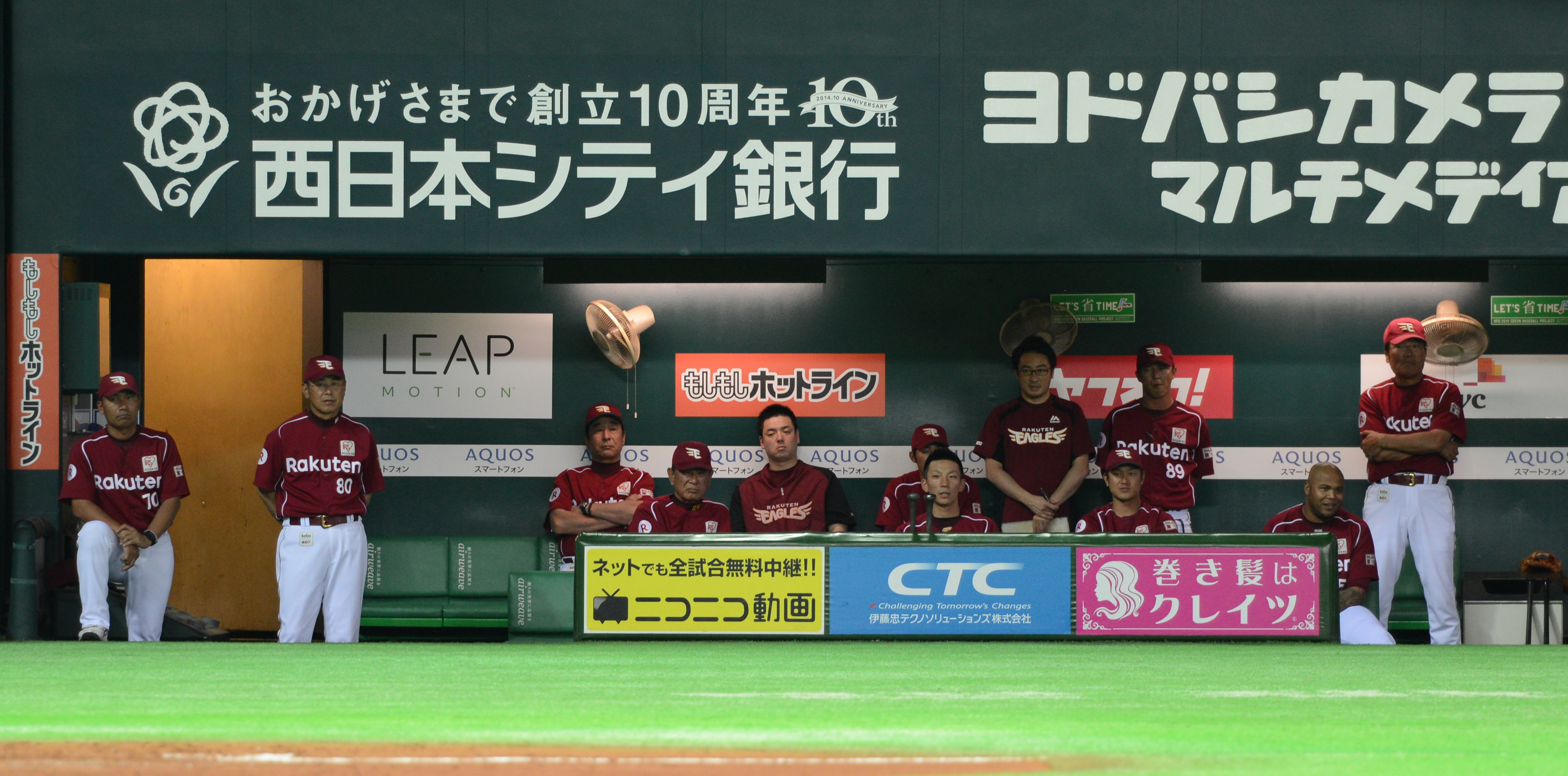 Tohoku Rakuten Golden Eagles at Fukuoka Dome